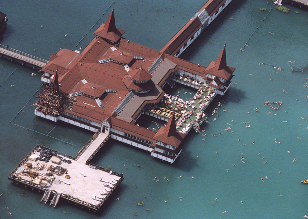 Medicinal Bath - Hévíz - Hungary - Europe